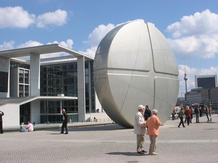 „Milestones of Medicine“, second sculpture (from six) of the Berliner Walk of Ideas on the occasion of 2006 FIFA World Cup Germany. Unveiling: 30 March 2006 on Friedrich-Ebert-Platz (place nearby Reichstag), Berlin-Mitte. On the left side the Marie-Elisabeth-Lüders-Haus with the library of parliament